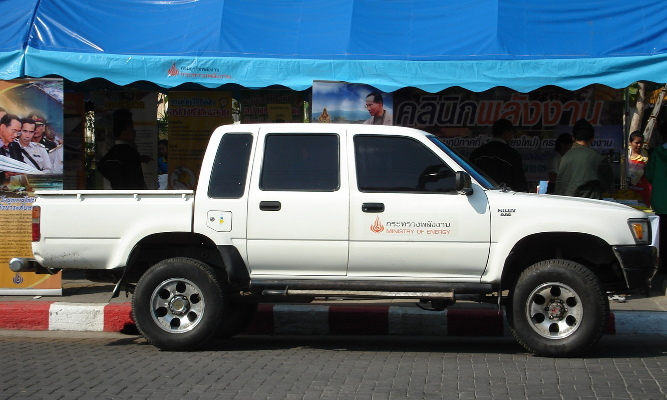 Toyota Hilux -- Chiangmai, Thailand Ministry of Energy (Thailand)